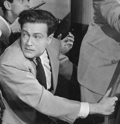 Edgar Barrier in The Adventures of Smilin' Jack - cropped screenshot